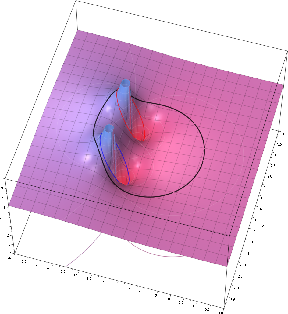 An illustration to Cauchy's integral formula in complex analysis. Made with MuPad.